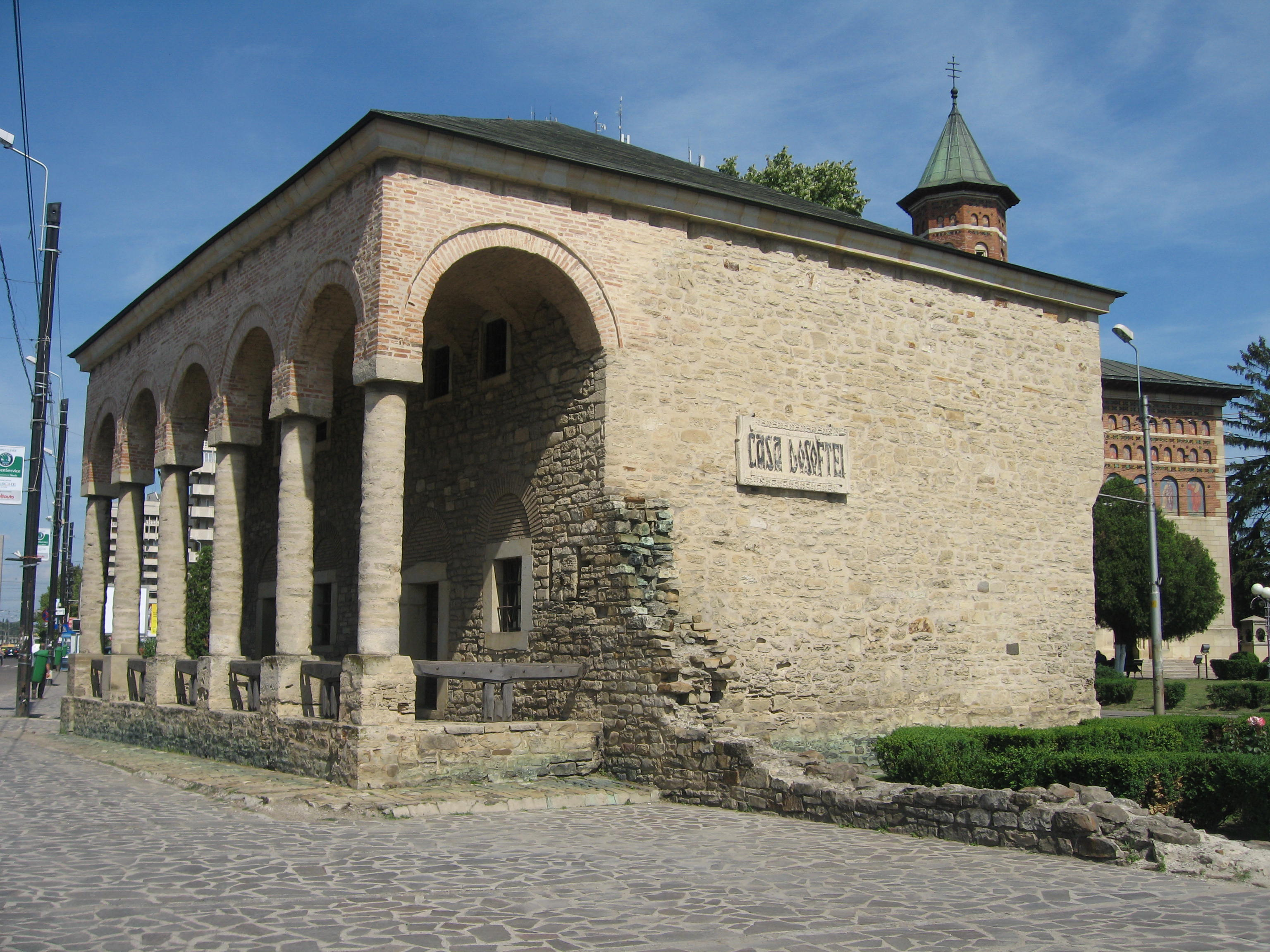 Iasi , Dosoftei House , Iaşi , Romania